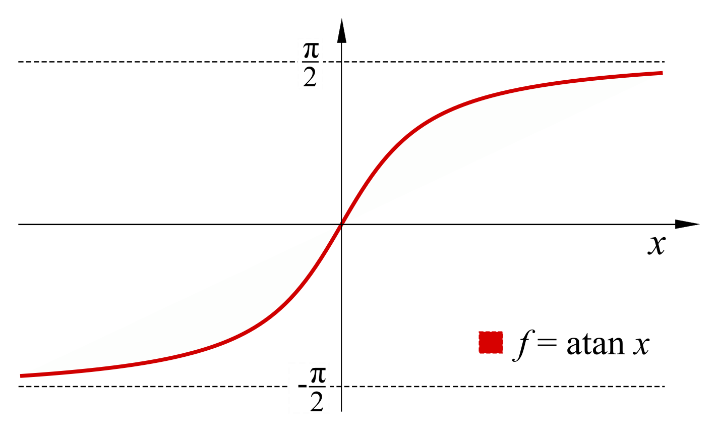 The graf for arctan(x)